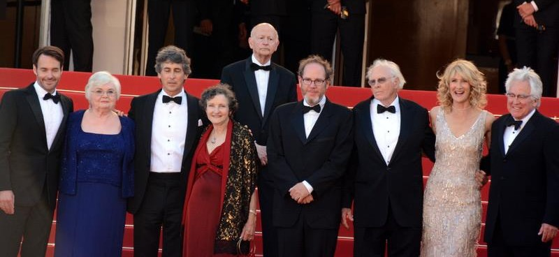 Cast and crew of "Nebraska" at the Cannes Film Festival